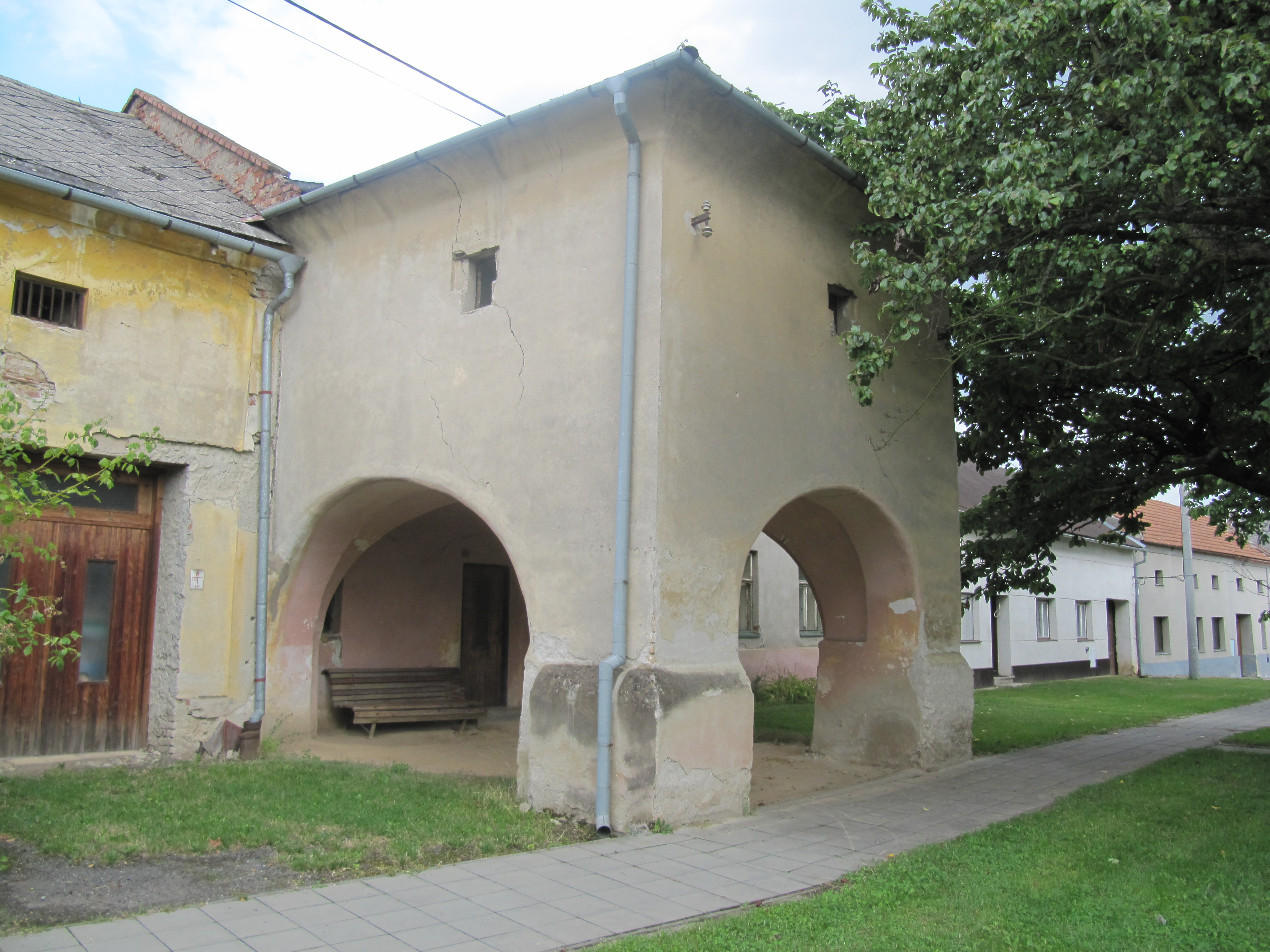 Lobodice, Přerov District, Czech Republic.